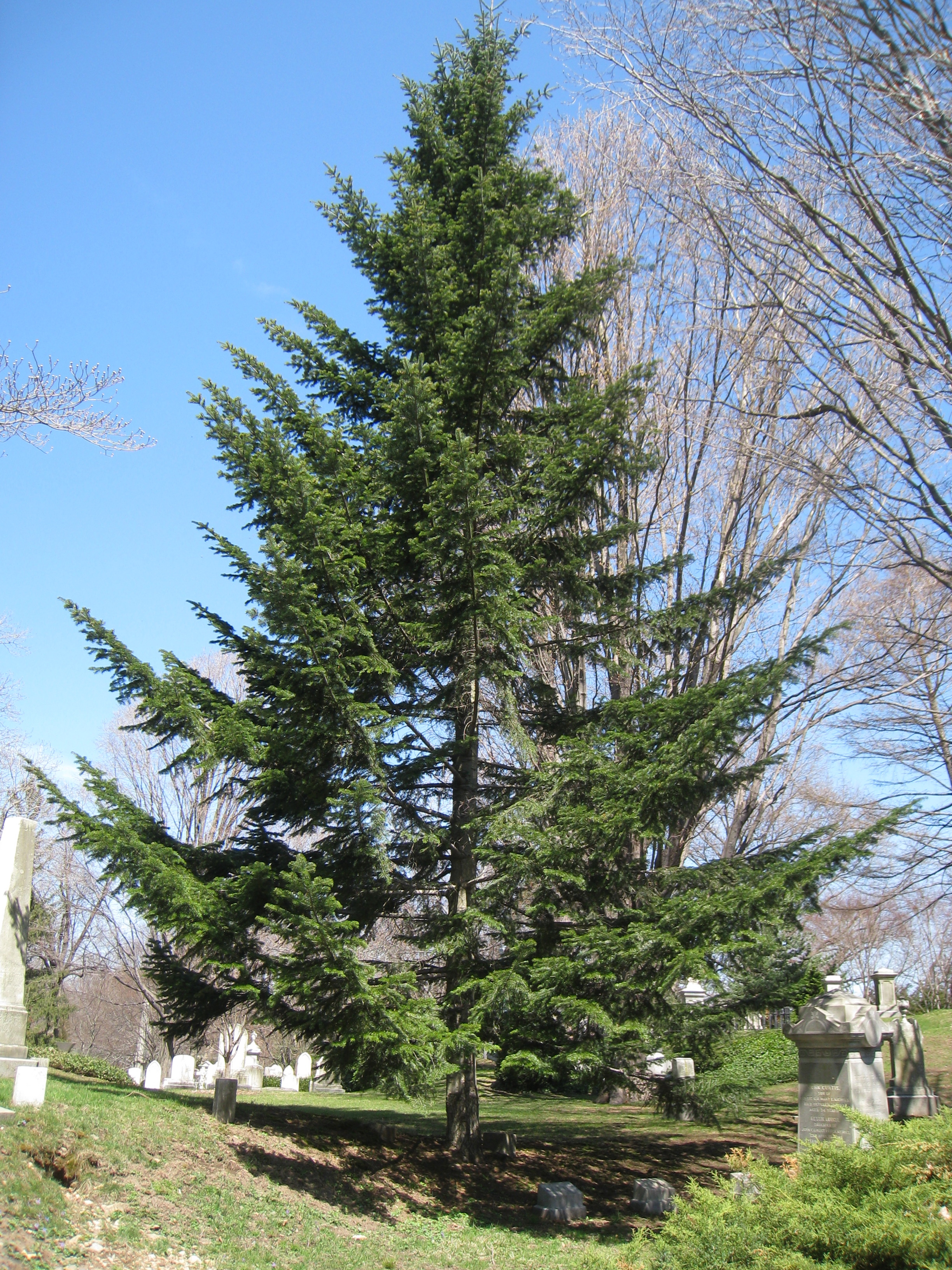 Abies alba], Mount Auburn Cemetery, Cambridge, Massachusetts, USA.